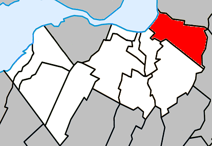 Location of Delson, Quebec within Roussillon Regional County Municipality.